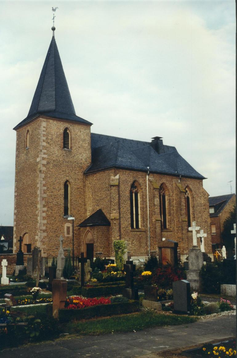 Pfarrkirche Nörvenich, St. Medardus own work papa1234 2004-03-17